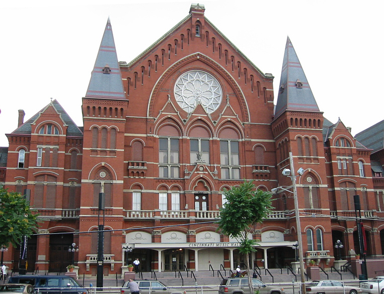 Cincinnati, Ohio, USA: Cincinnati Music Hall. Private photograph, July 2002 (uploader has written permission to license as GNU-FDL).